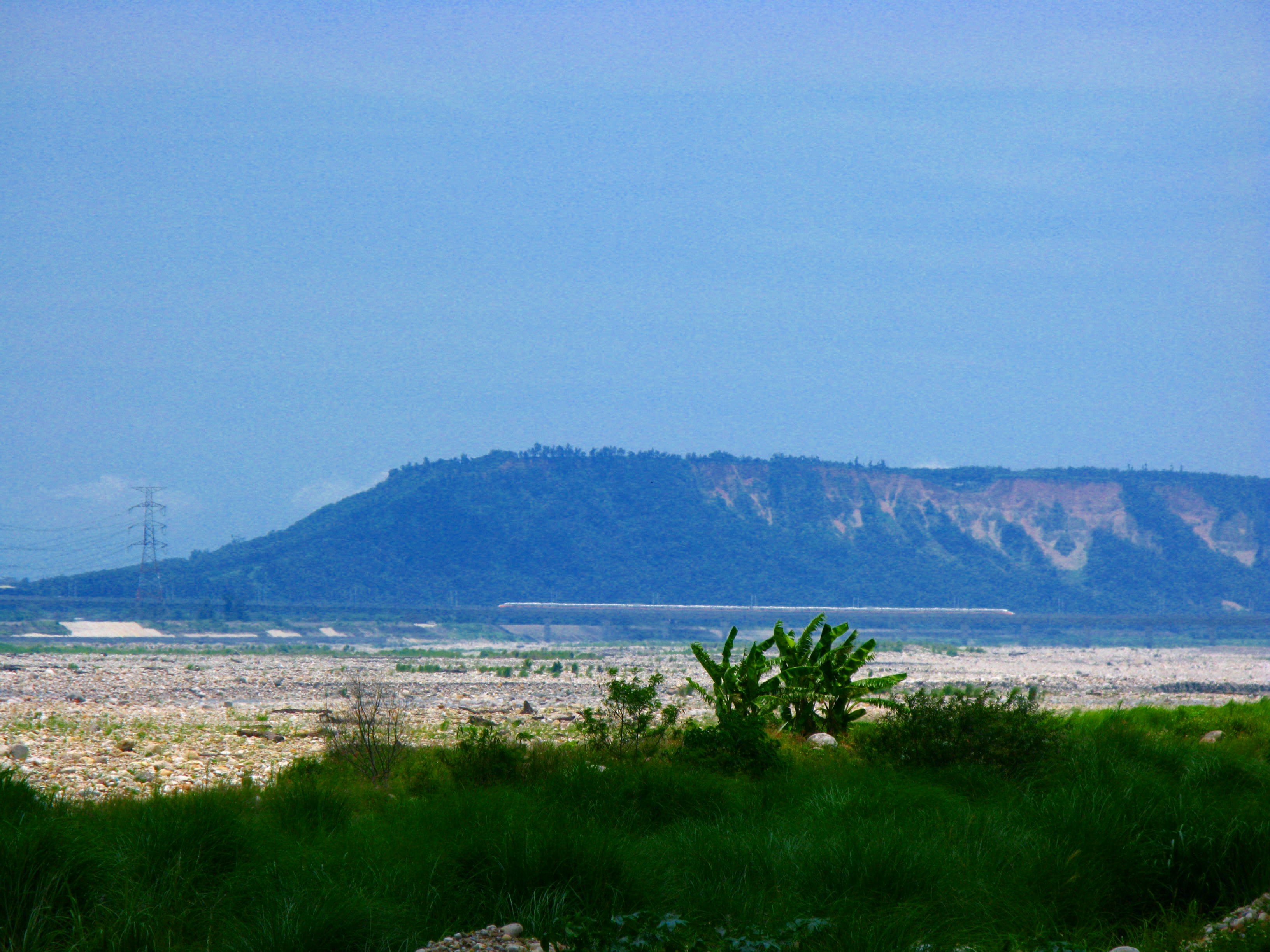 Da-An River,Taiwan.